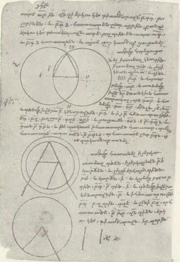 Euclid's Armenian manuscript, Matenadaran, MS. 8132